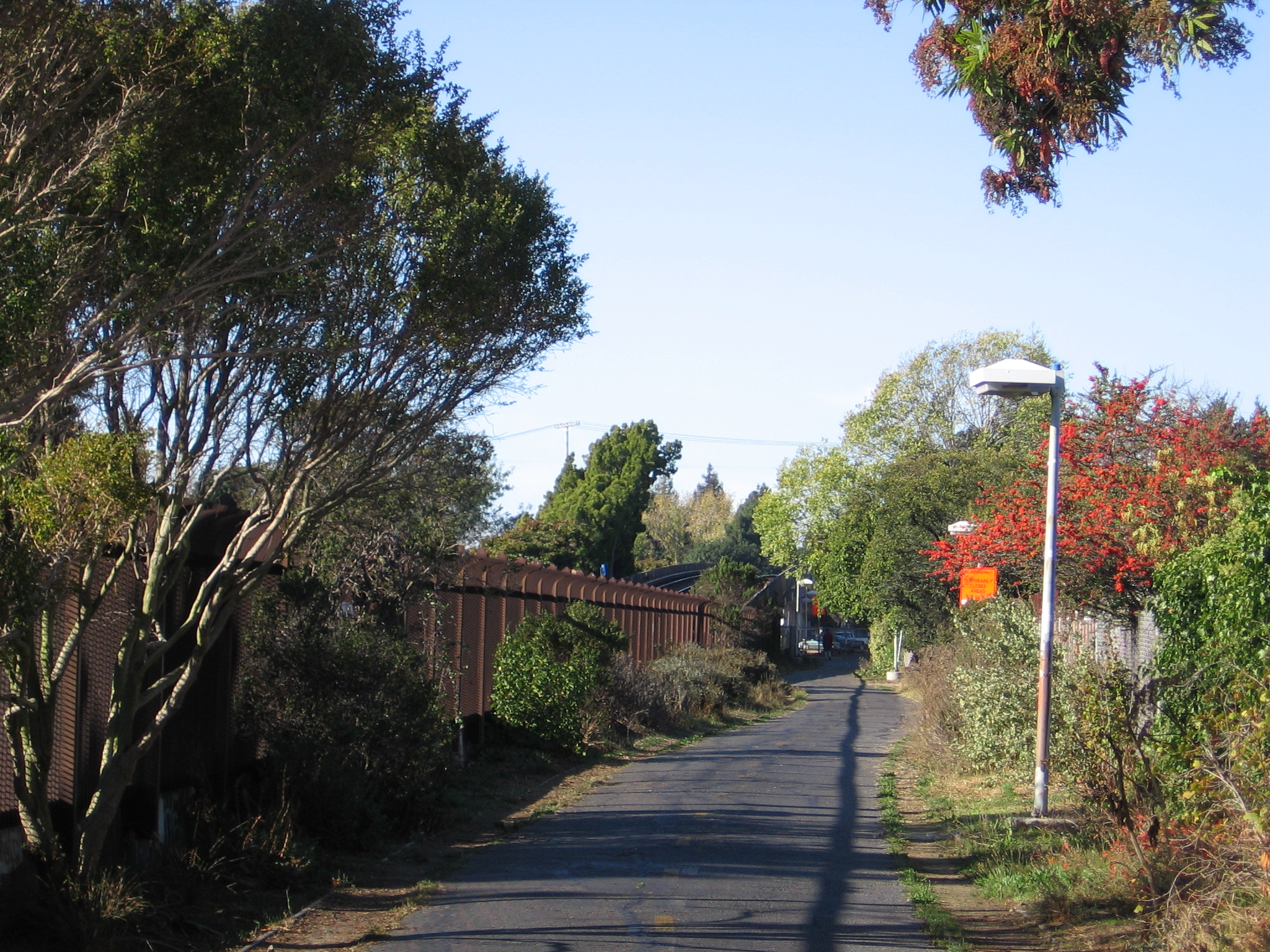 The Ohlone Greenway where the BART tracks transition from underground to elevated running, near Northside Avenue.